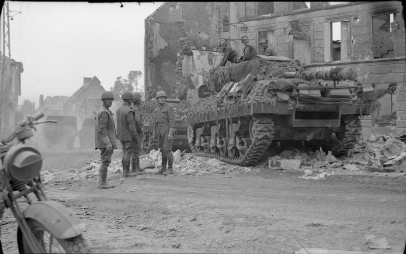 The British Army in Normandy 1944 Achilles 17-pdr tank destroyers passing through Cahagnes during the advance towards Aunay-sur-Odon, 2 August 1944.